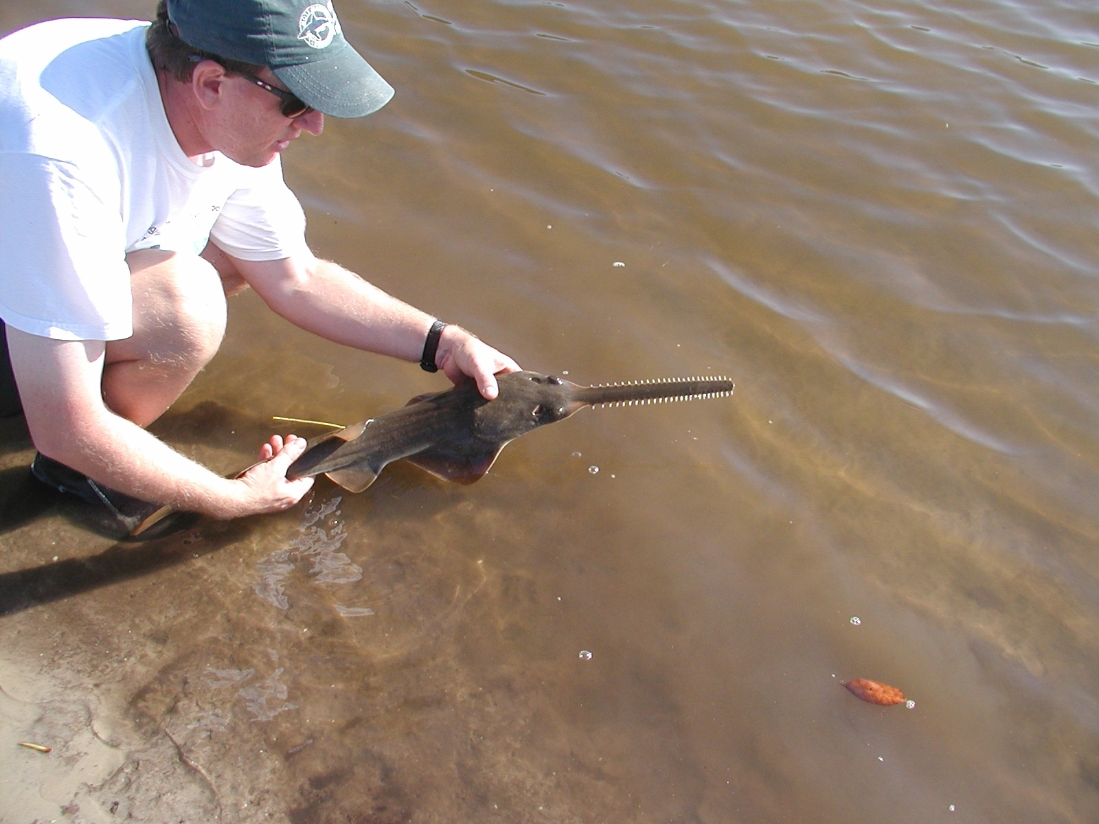 A baby small-toothed sawfish (Pristis pectinata) from Atlantic Ocean, Southeast U.S. shelf/slope area.